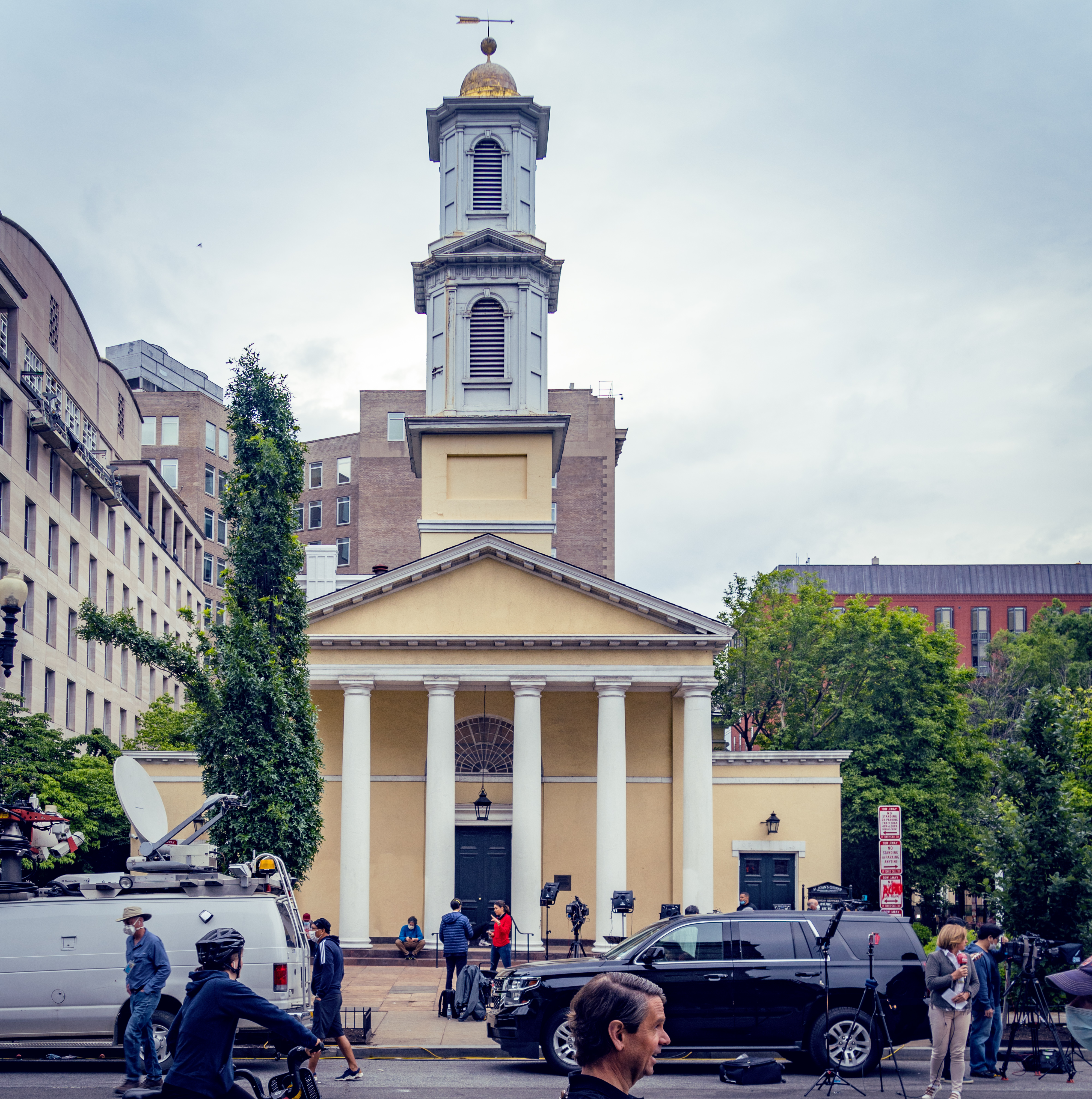 Protesting the murder of George Floyd, Washington, DC USA